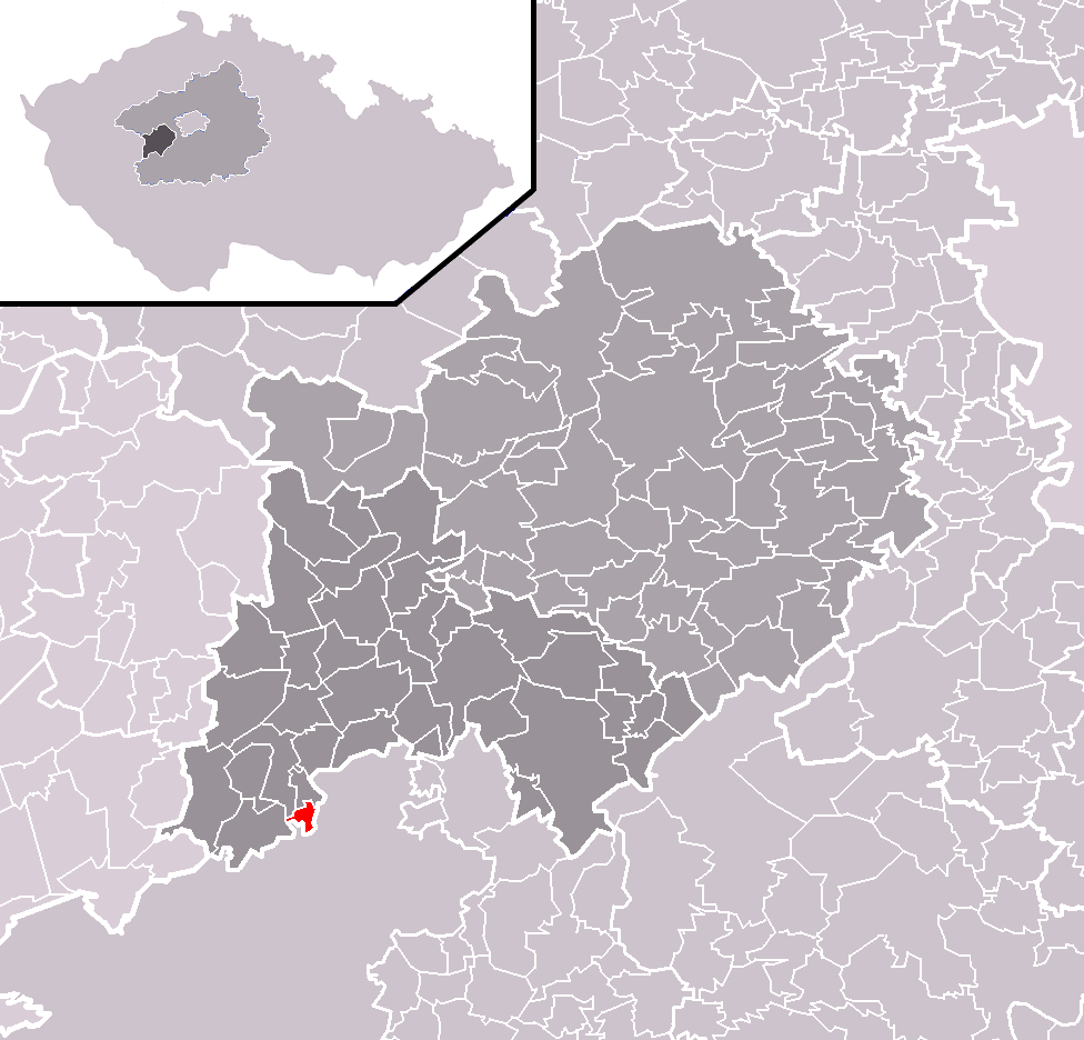 Location of Malá Víska municipality within Beroun District and administrative area of Hořovice as a Municipality with Extended Competence.